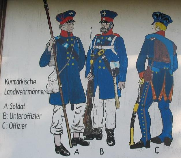 Prussian „Landwehrmänner“ (militia men), Battle nearby Hagelberg, 1813. The village Hagelberg is a part of the town Belzig in the district Potsdam Mittelmark, federal state of Brandenburg, Germany. The village appertains to the Nature Park Hoher Fläming. Two monuments on Hagelberg hill commemorate the victory of Prussian and Russian troops in the „Battle of Hagelberg“ in 1813 against Napoleonic forces.